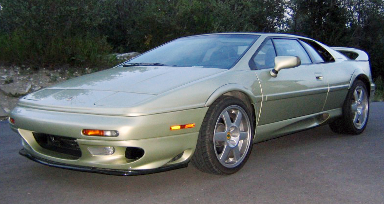 1997 Lotus Esprit V8